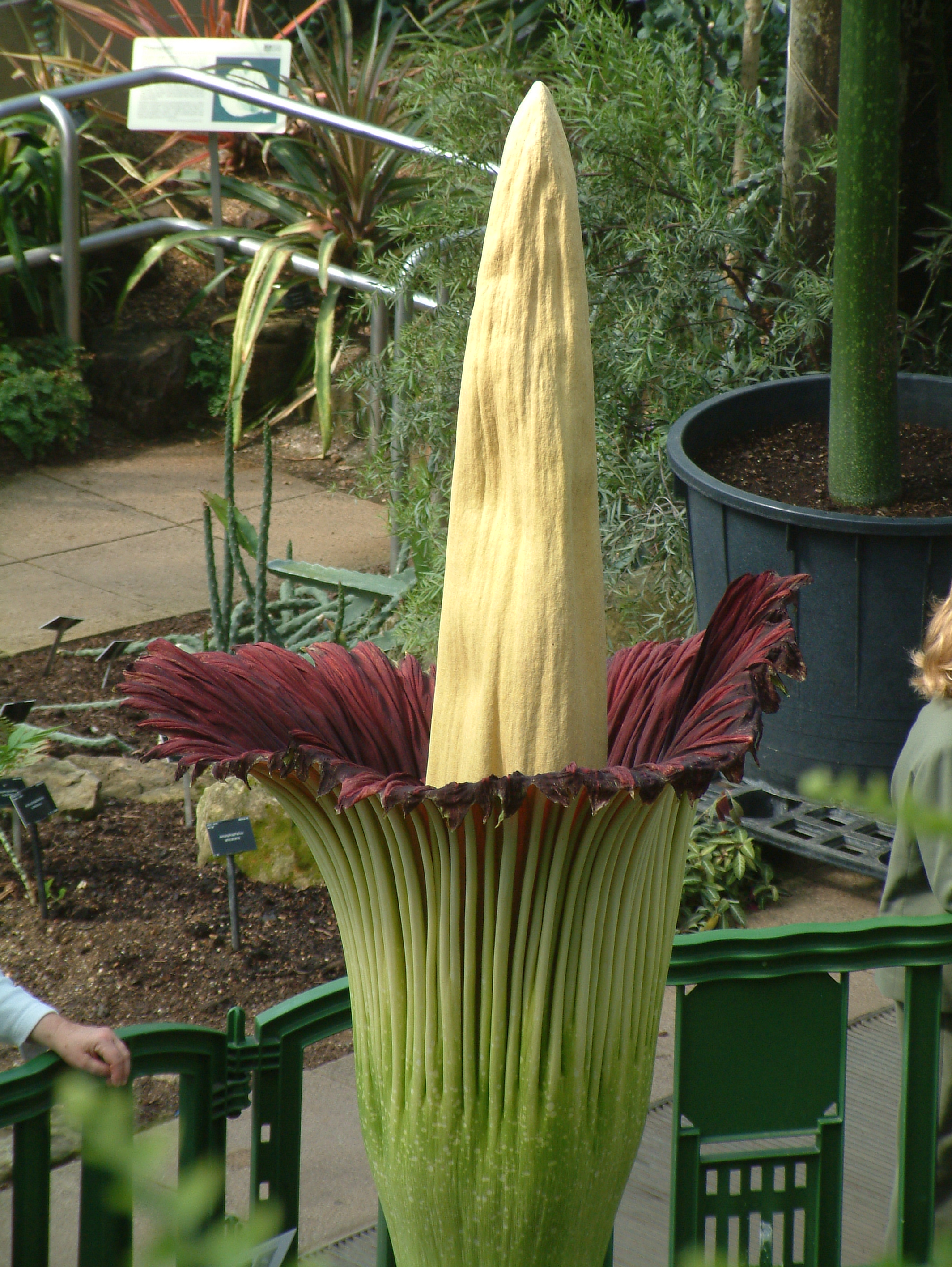 Amorphophallus titanum